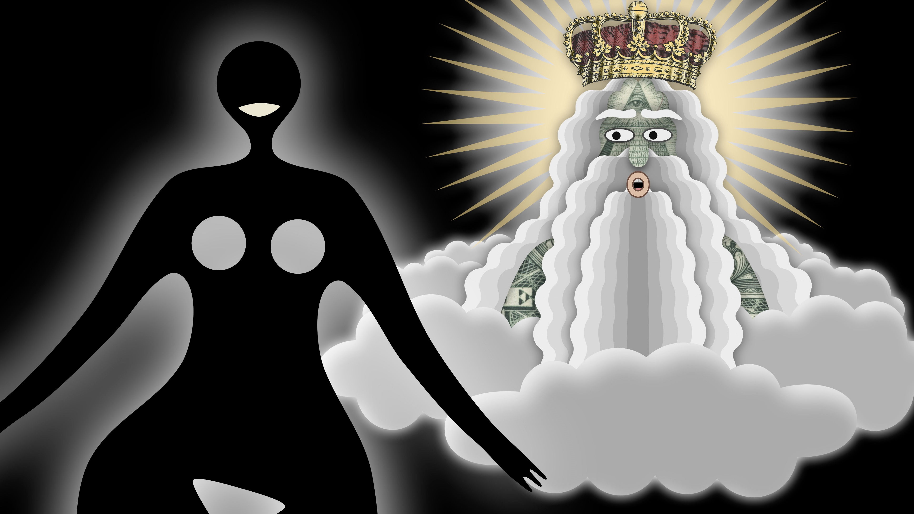 Still from the 2018 animated feature film Seder-Masochism by Nina Paley.